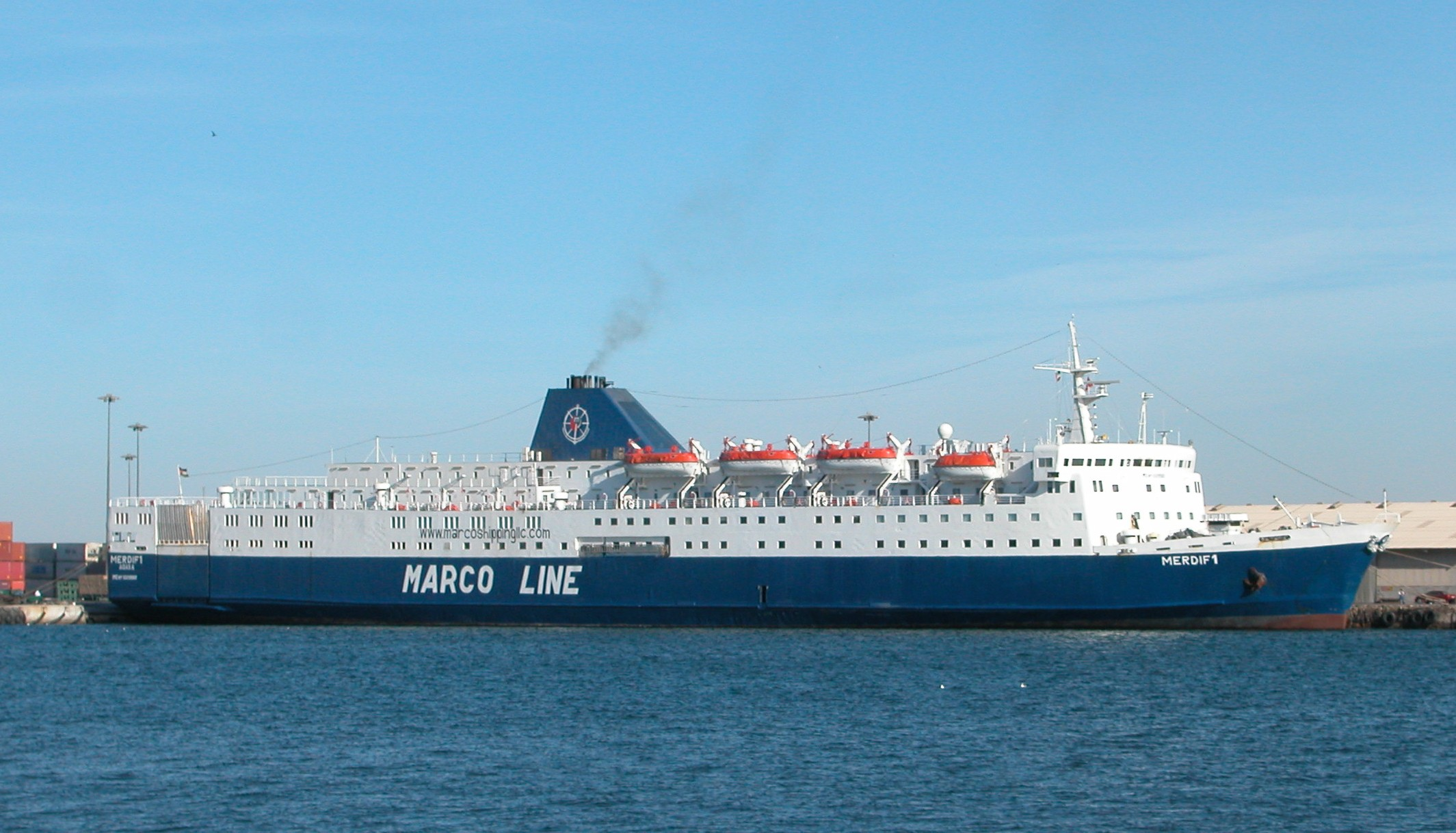 Ferry MS Merdif 1.